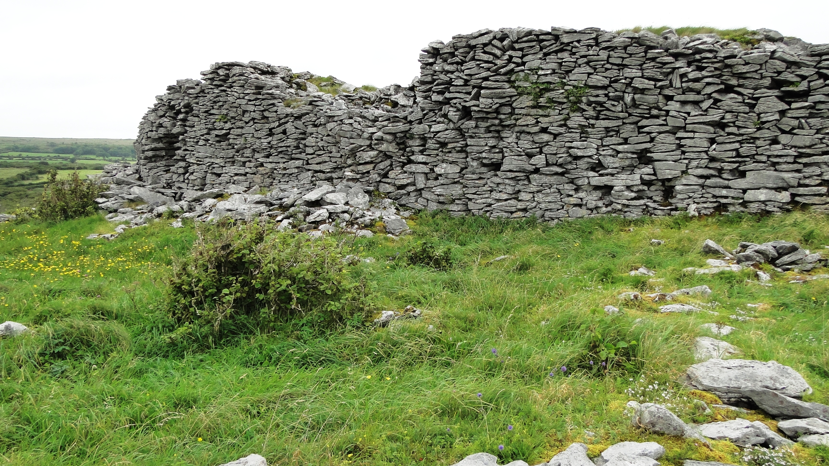 Detail of part of the inner wall of Cahercommaun ringfort, County Clare, Ireland, summer 2016